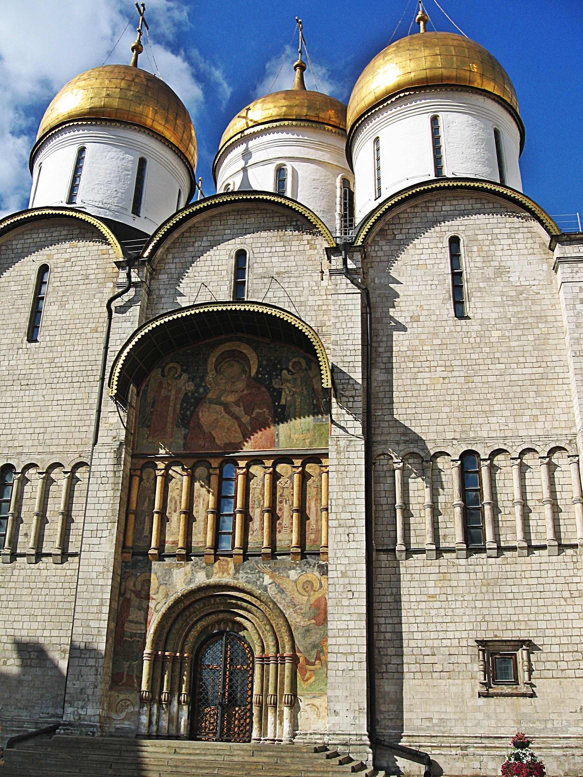 catthedral